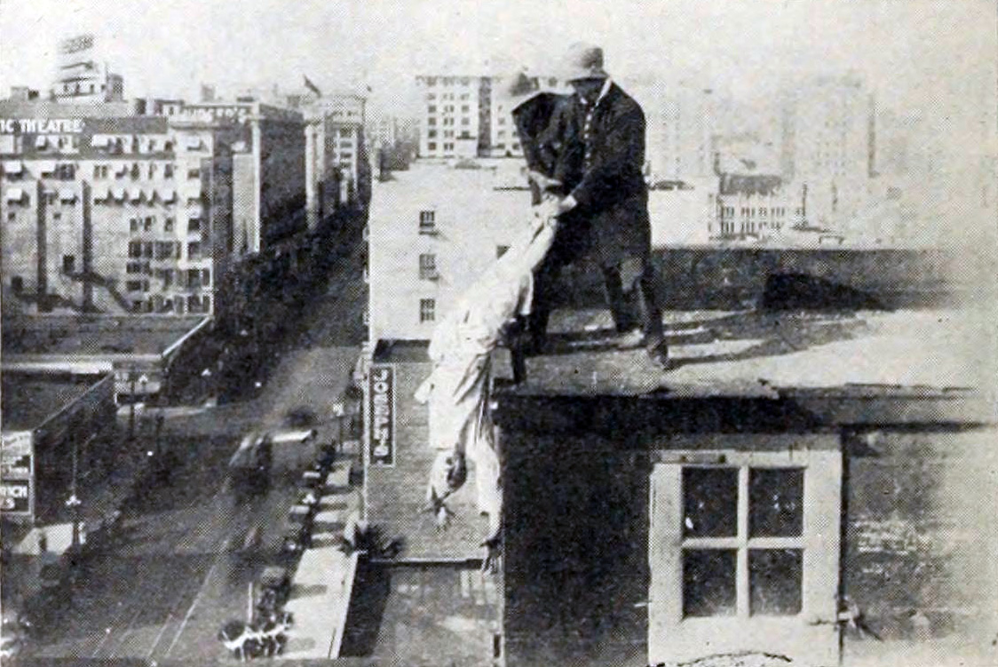 Illustration of an article in The Moving Picture World